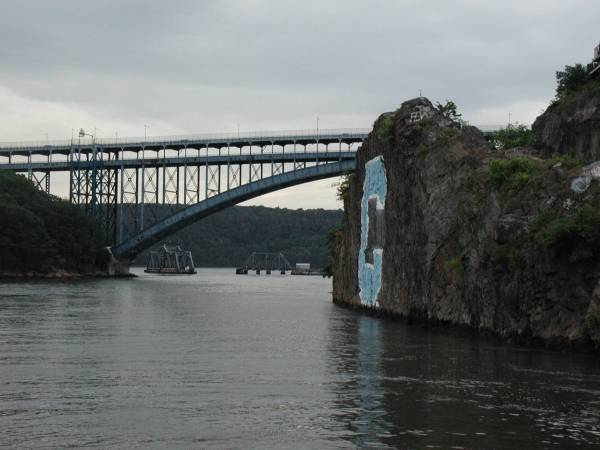 A view westward along the Harlem River, through Spuyten Duyvil and under the Henry Hudson Bridge. The Columbia "C" rock is seen to the right side.